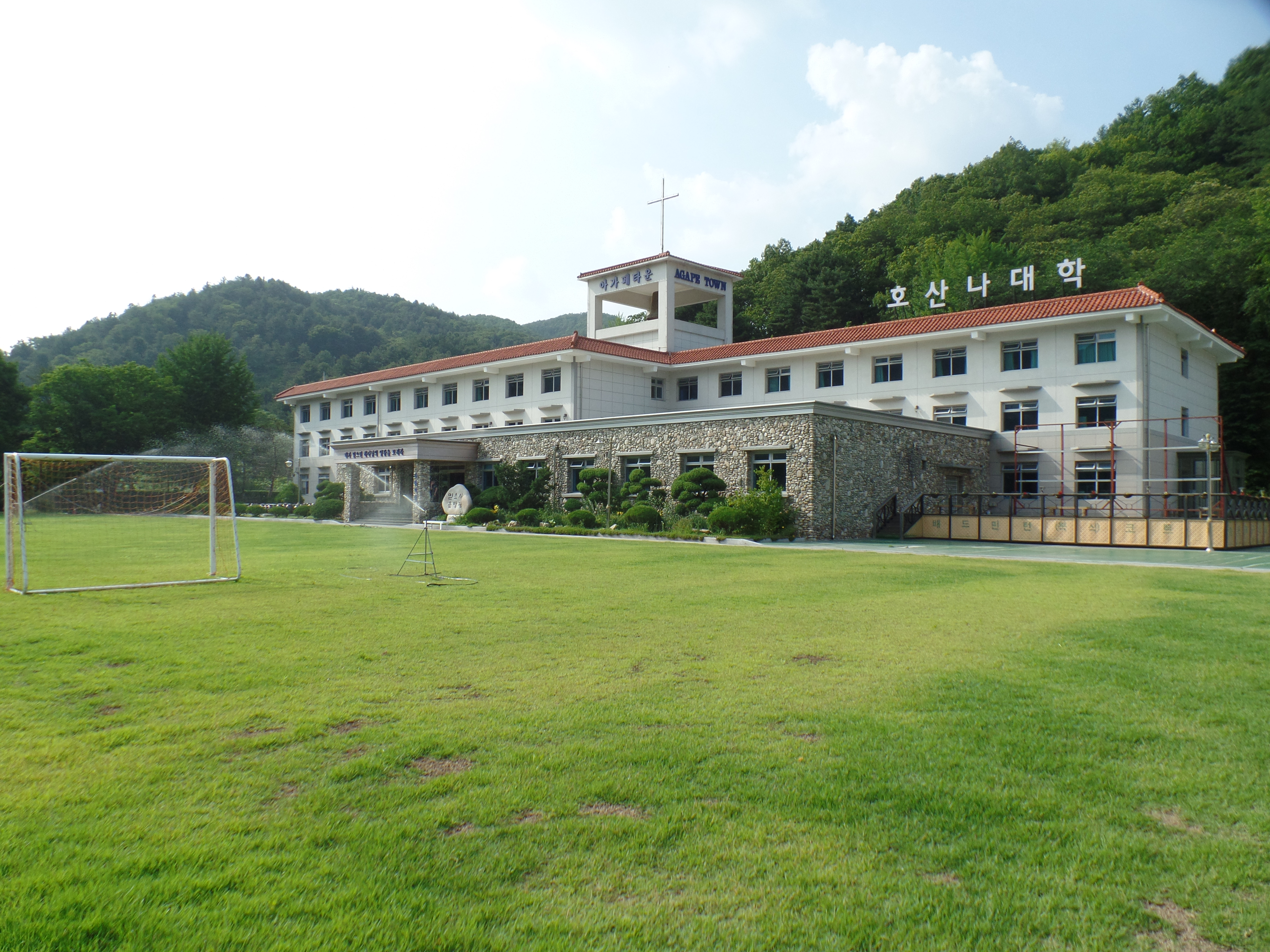 Hosanna College Main Building(Seoul Church Agapetown Building)